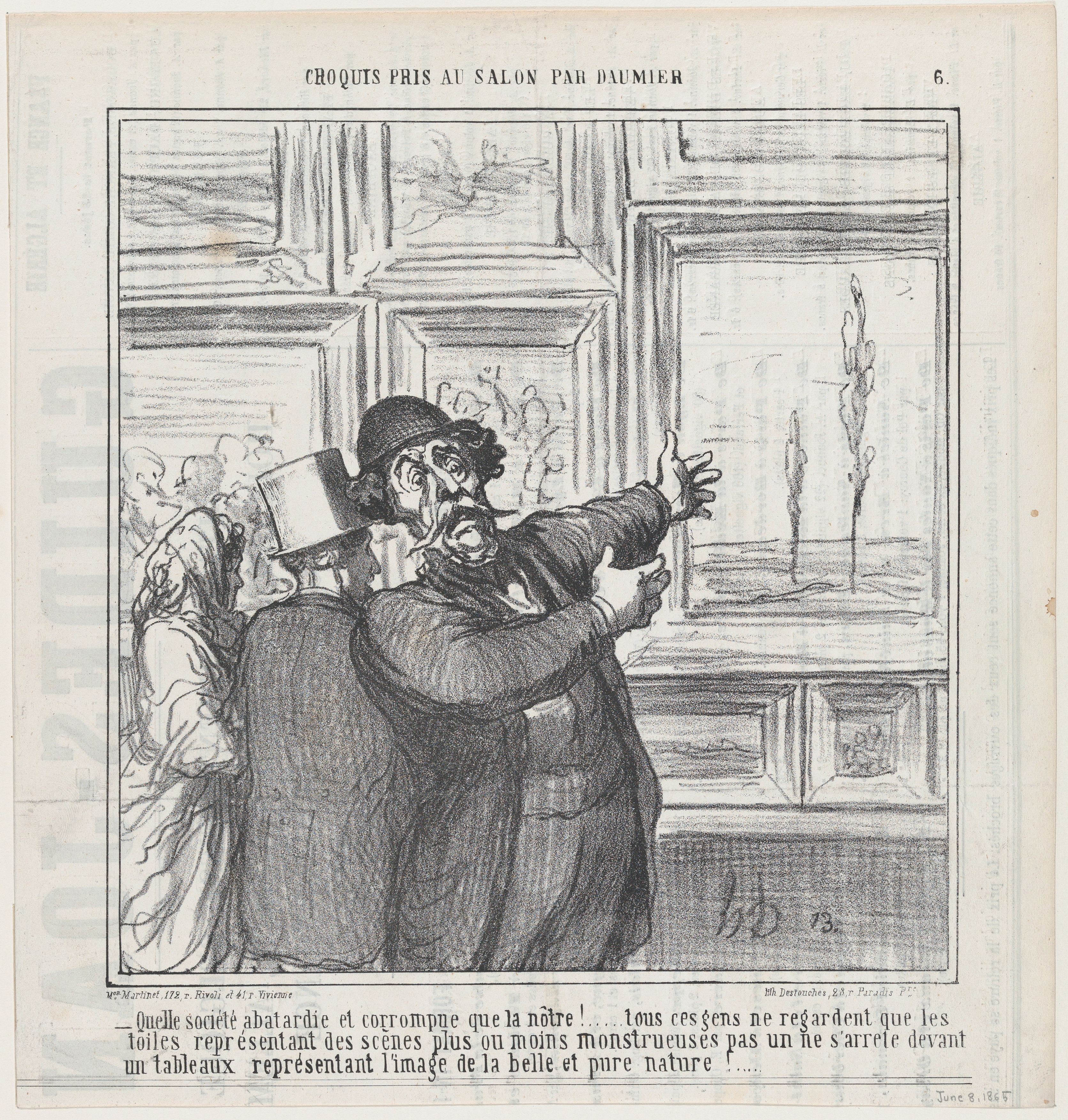 Print; Prints